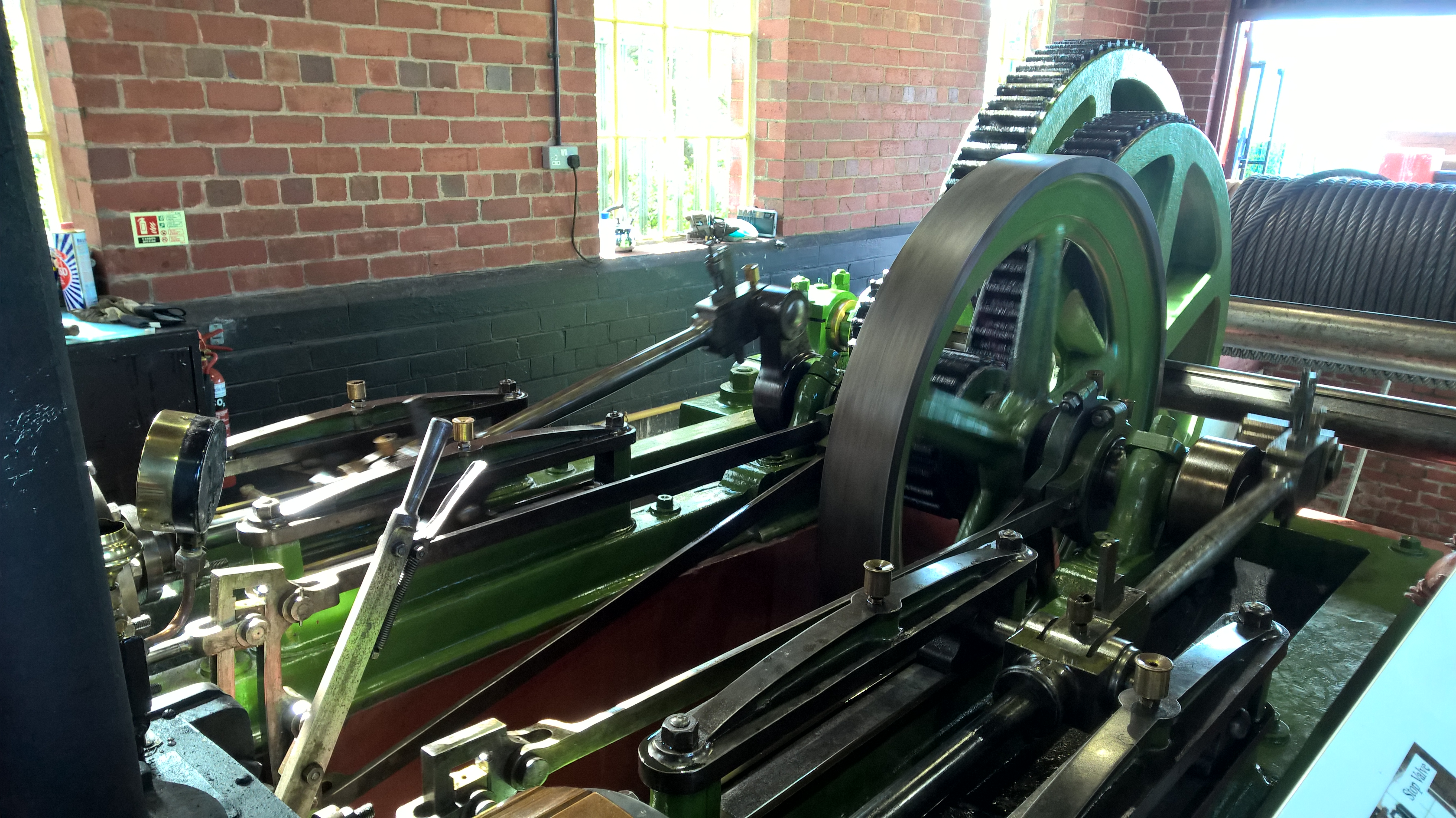 The Balloch Steam Slipway steam engine. Picture taken on 17th April 2017. The engine was built in 1902 and was restored in 2006.